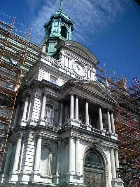 Montreal City Hall undergoing renovation